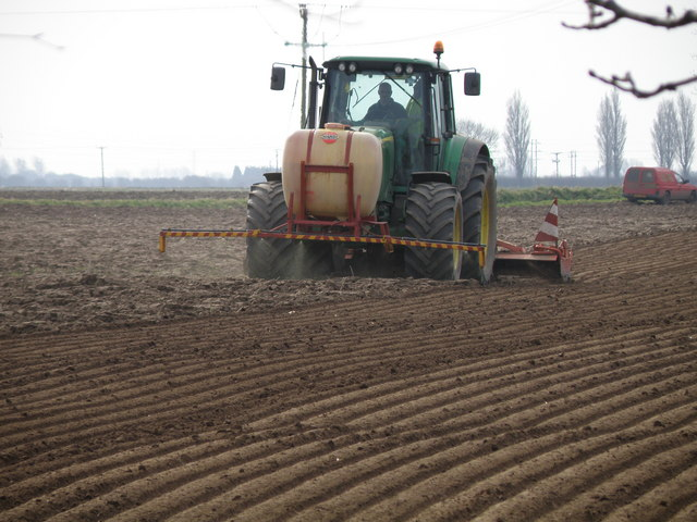 Power harrowing, near to Frampton, Lincolnshire, Great Britain. Seed bed preparation for a brassica crop. The lovely silt land breaks down to a fine firm seedbed in one pass of the tractor mounted power harrow. A spray application of either a herbicide or a nematicide is being applied ahead of the culltivation so it is mixed into the soil to be effective.